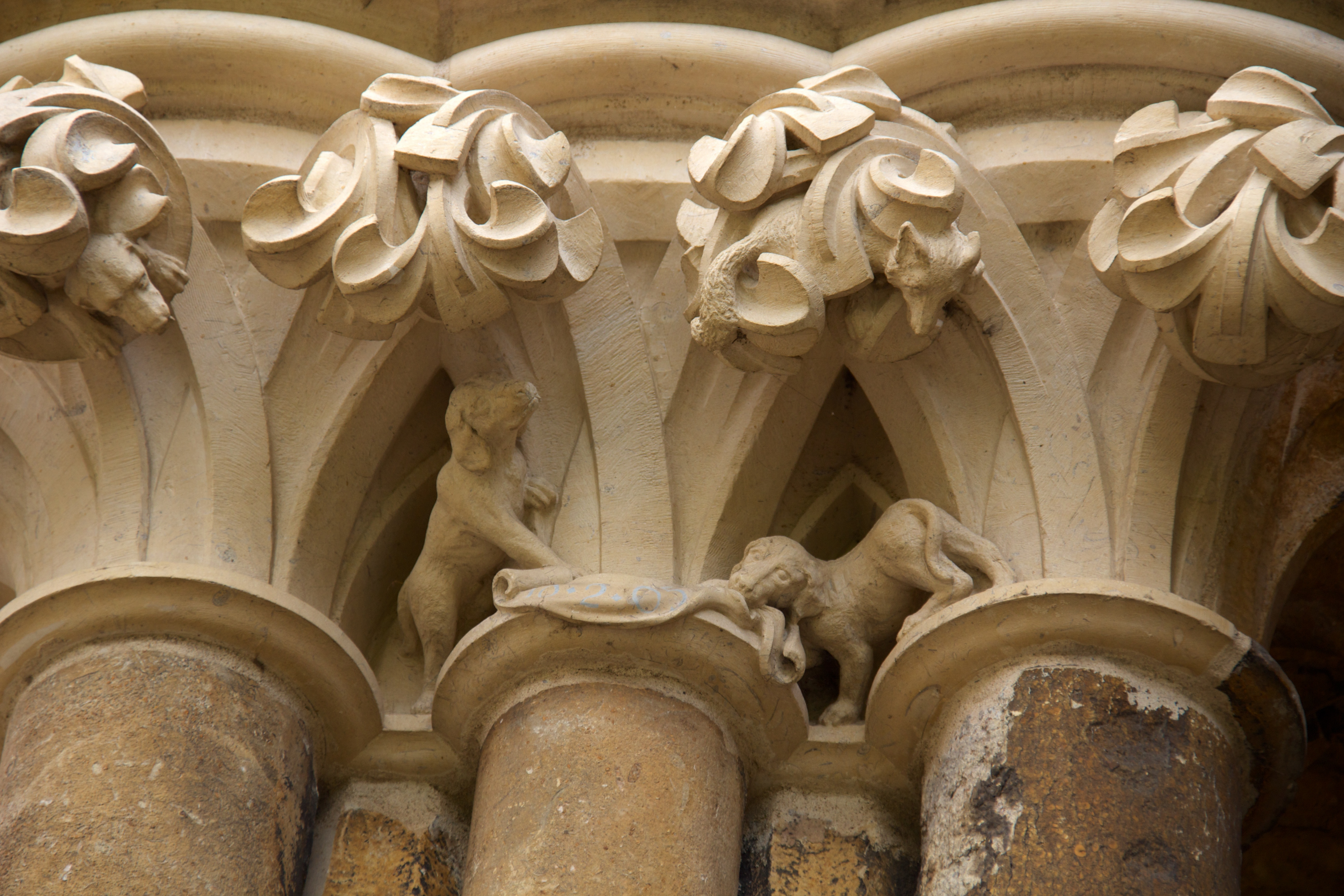 Detail of Lincoln Cathedral.